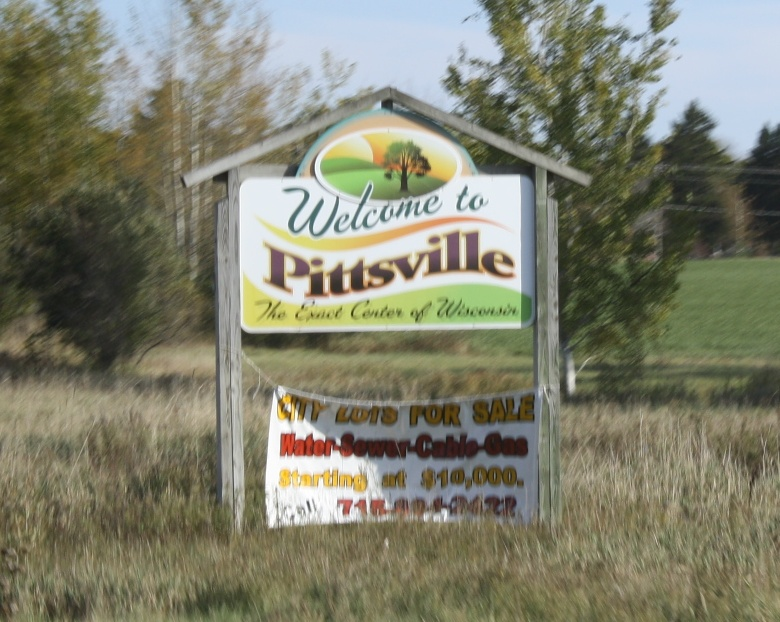 Looking east at the welcome sign for Pittsville, Wisconsin on Wisconsin Highway 73 / Wisconsin Highway 13.